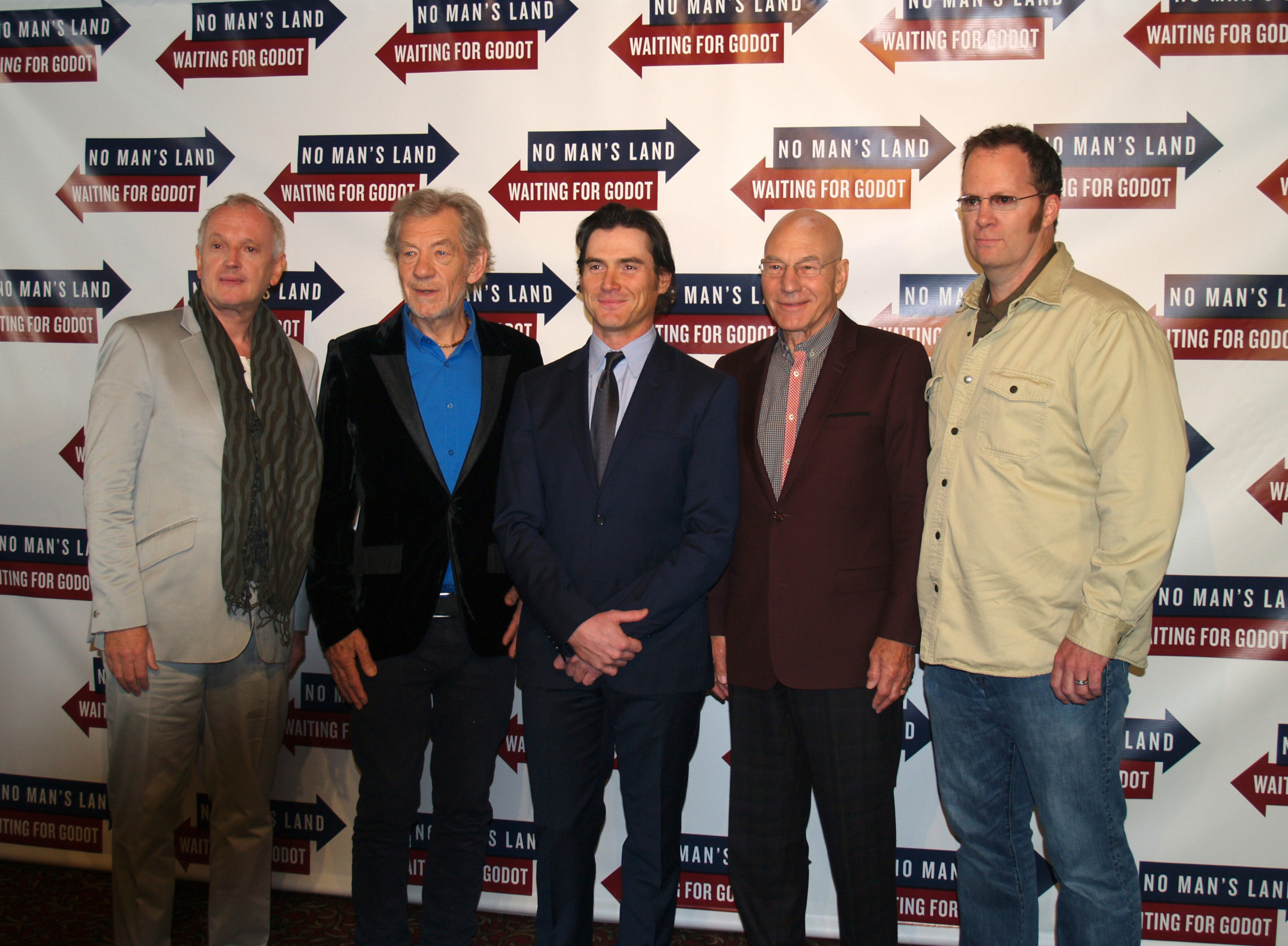 From left to right: director Sean Matthias with actors Ian McKellen, Billy Crudup, Patrick Stewart and Shuler Hensley, at a September 24, 2013 press junket at Sardi's restaurant in Manhattan's theater district for the Broadway shows Waiting for Godot and No Man's Land. This photo was created by Luigi Novi. It is not in the public domain, and use of this file outside of the licensing terms is a copyright violation.